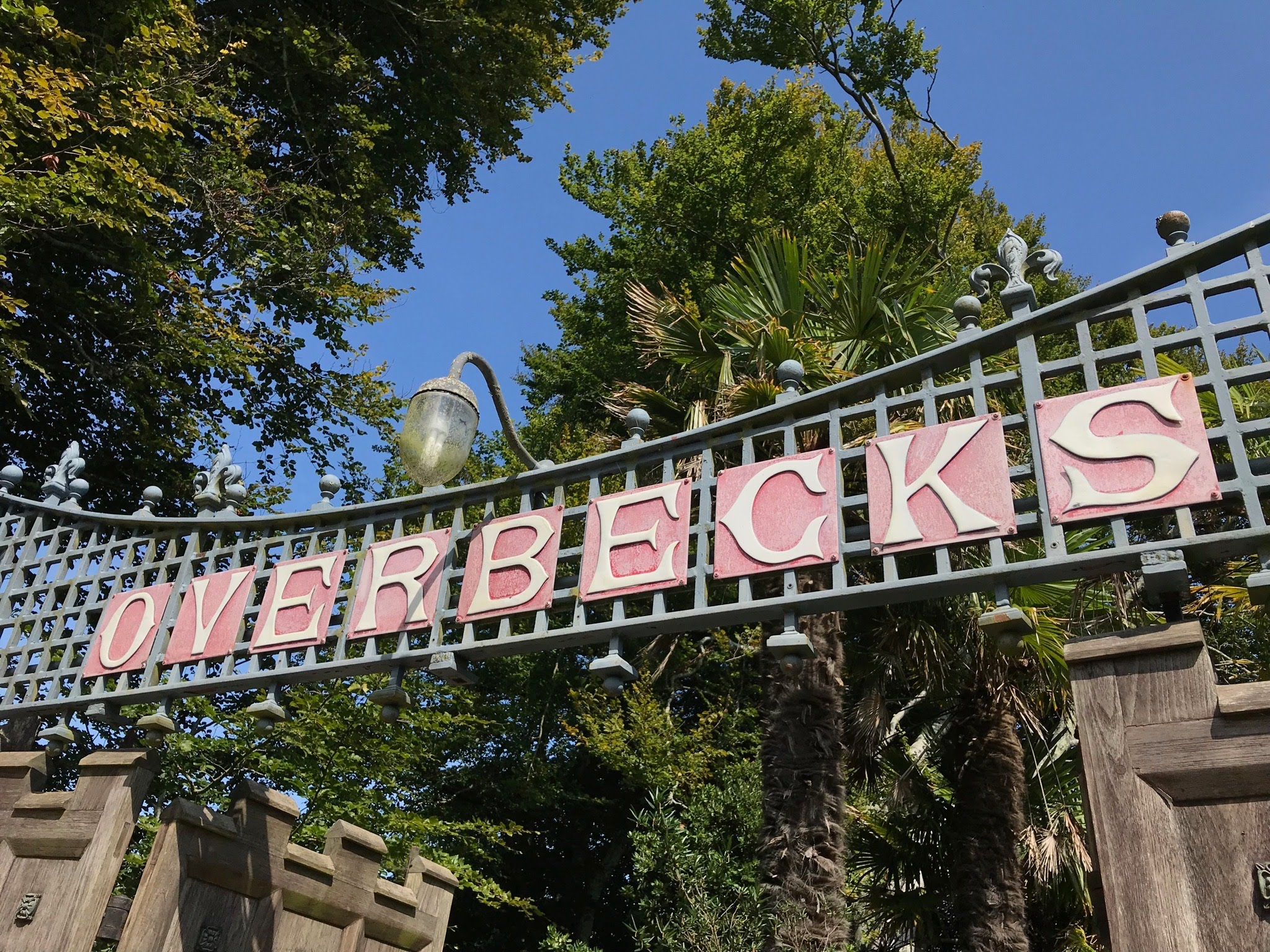 The sign above the main entrance gate to Overbeck's House in Salcombe.